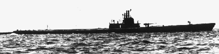 This is a 1943 US Naval Institute photo of the USS Drum, ss-228 found at website: This is a work of a US Gov Agency.